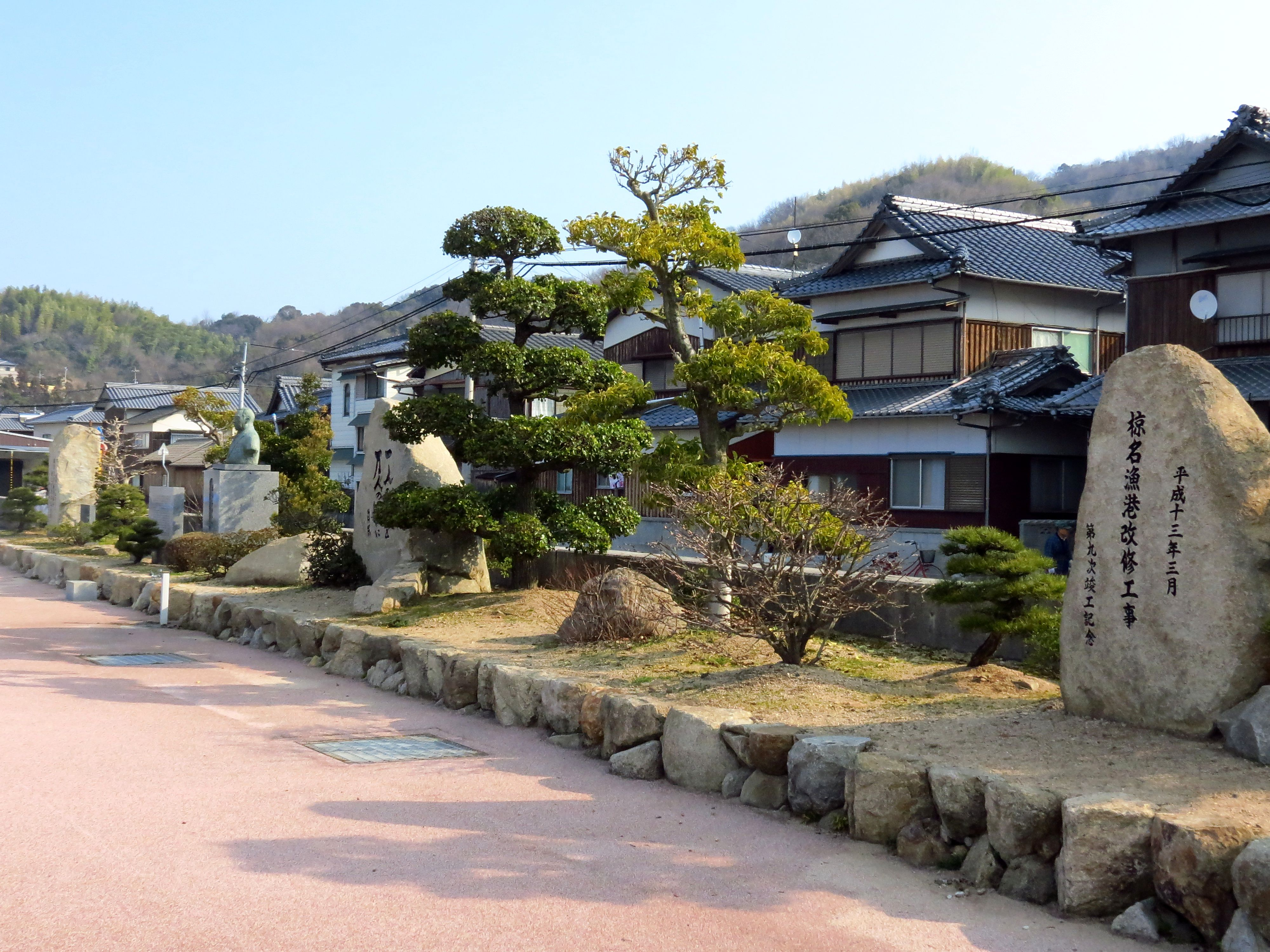 Yoshiumi-cho Mukuna